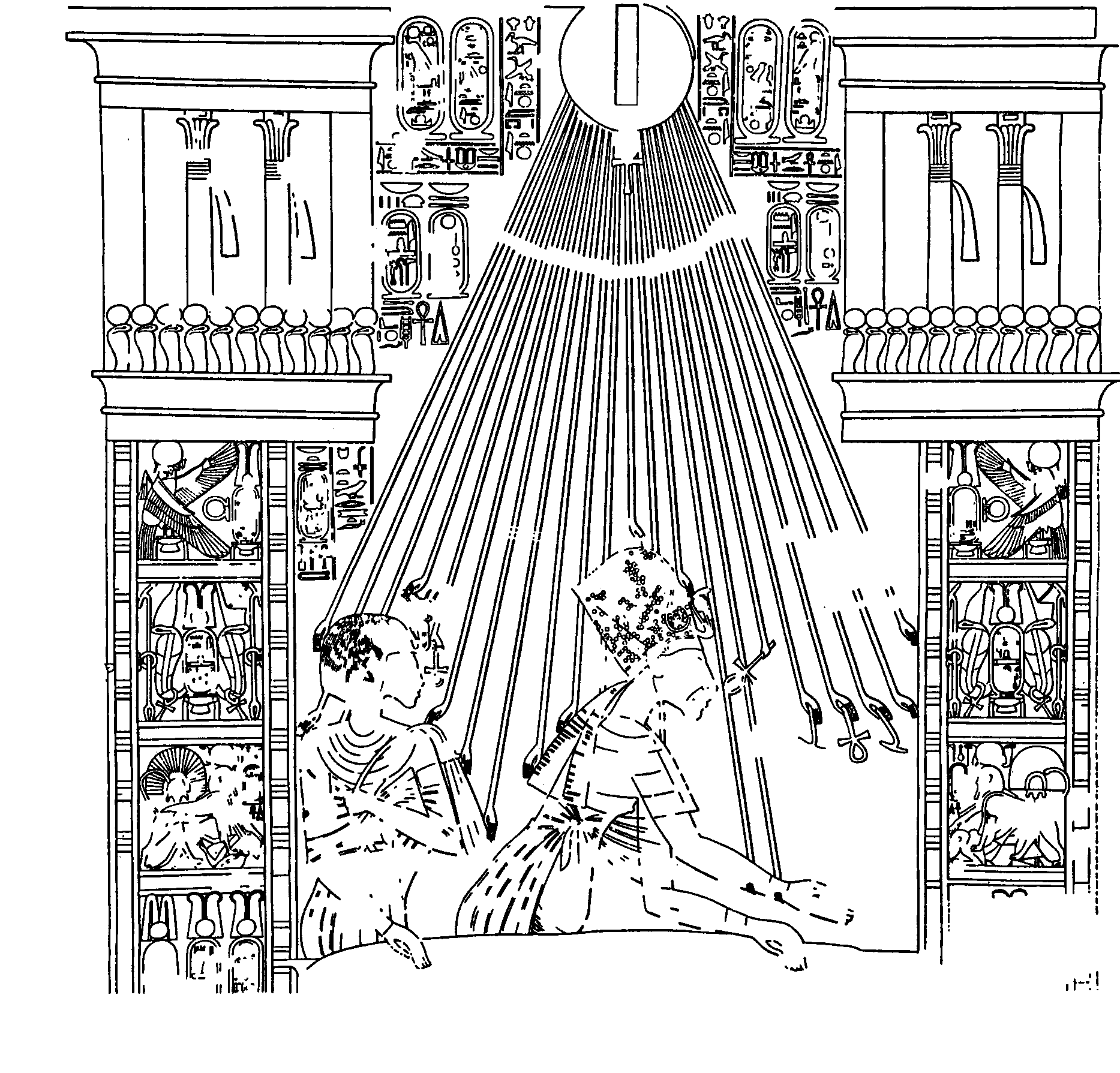 Akhenaten and Nefertiti in the Window of Appearances. Tomb of Ramose.